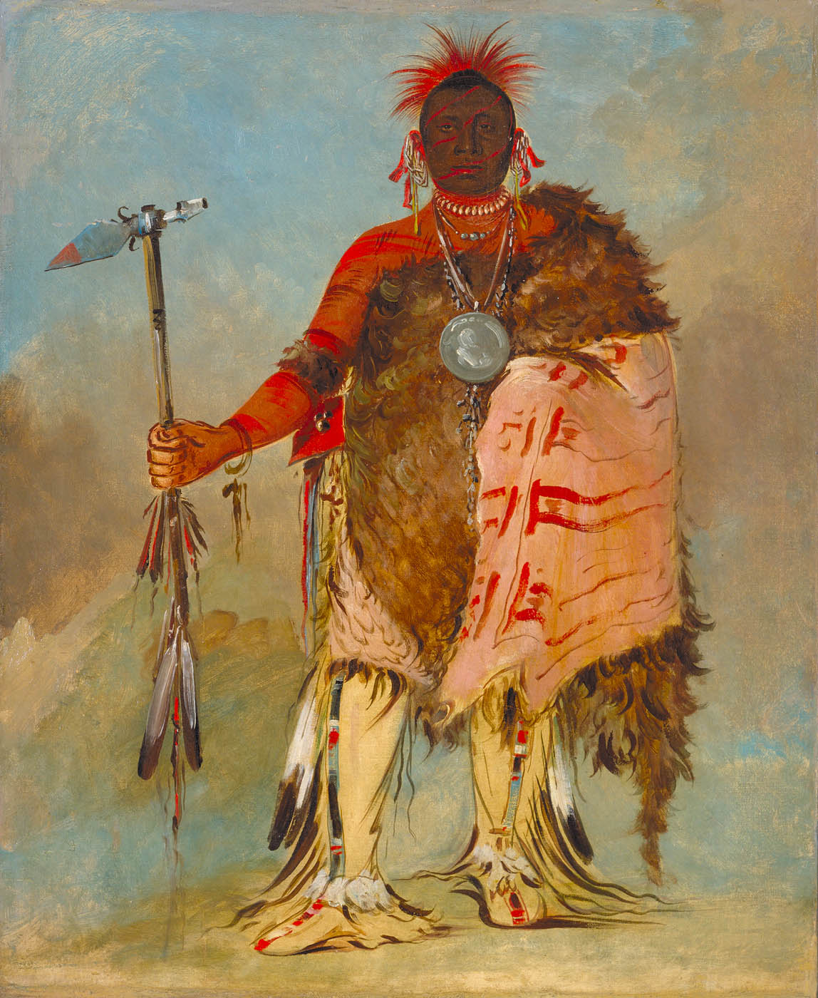 Painting of Big Elk (Ontopanga)a prominent Omaha Indian chief, warrior, and orator. Big Elk is painted wearing beaded leggings and moccasins, a decorated bison robe, war paint, and red porcupine fur hair roach. In his hand is spontoon tomahawk. Painted from life by George Catlin 1832 at Fort Leavenworth. “with his tomahawk in his hand, and face painted black, for war” -George Catlin